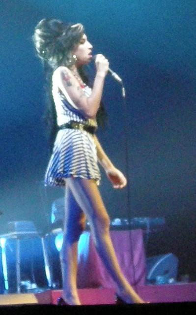 Amy Winehouse - HMH Amsterdam 2007